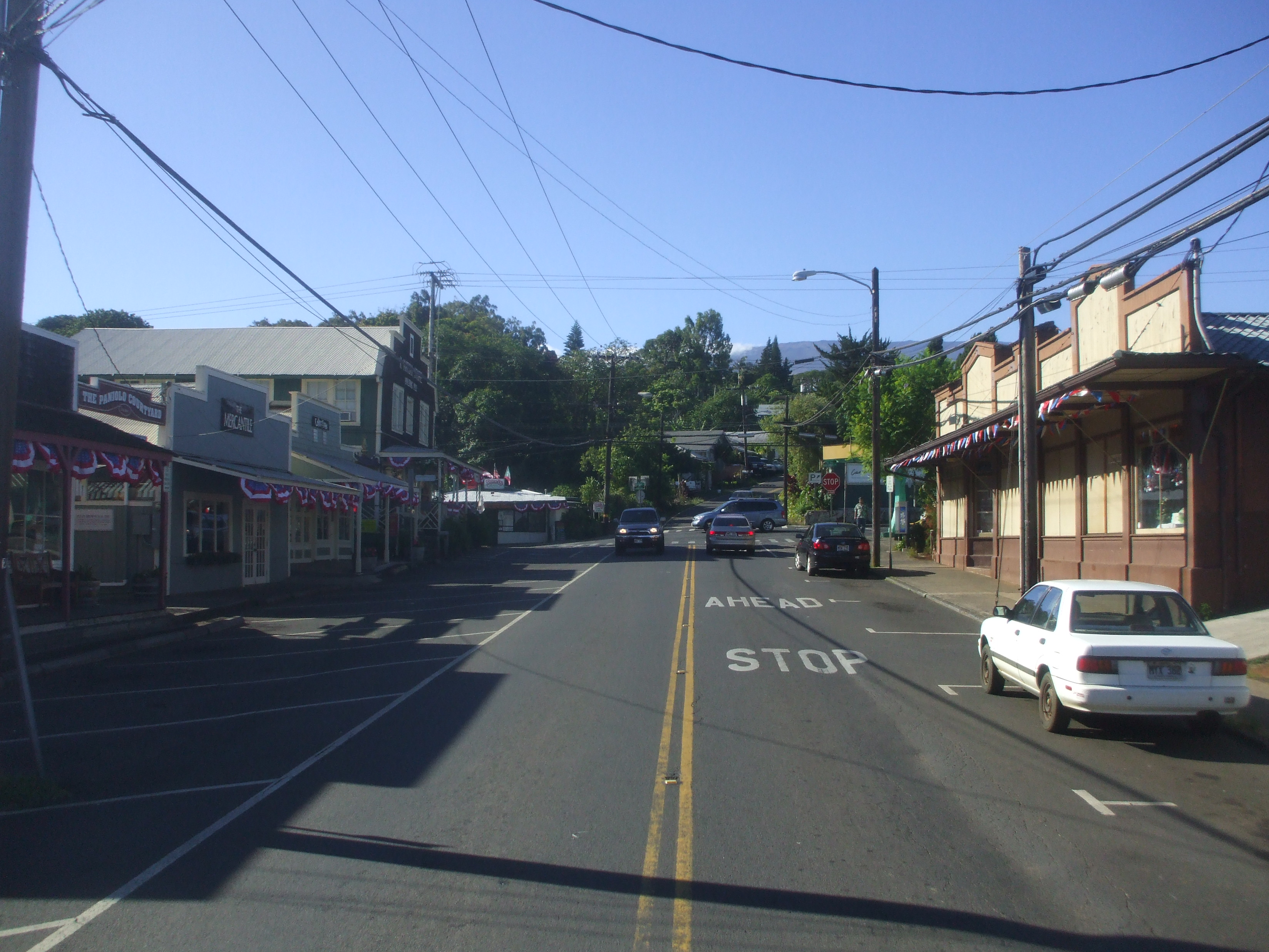 Looking up on Baldwin Ave. towards the Baldwin Ave/Makawao Ave/Olinda Road Intersection in Makawao. Komoda Store & Bakery is to the right of the picture (Off White/Brown Building).